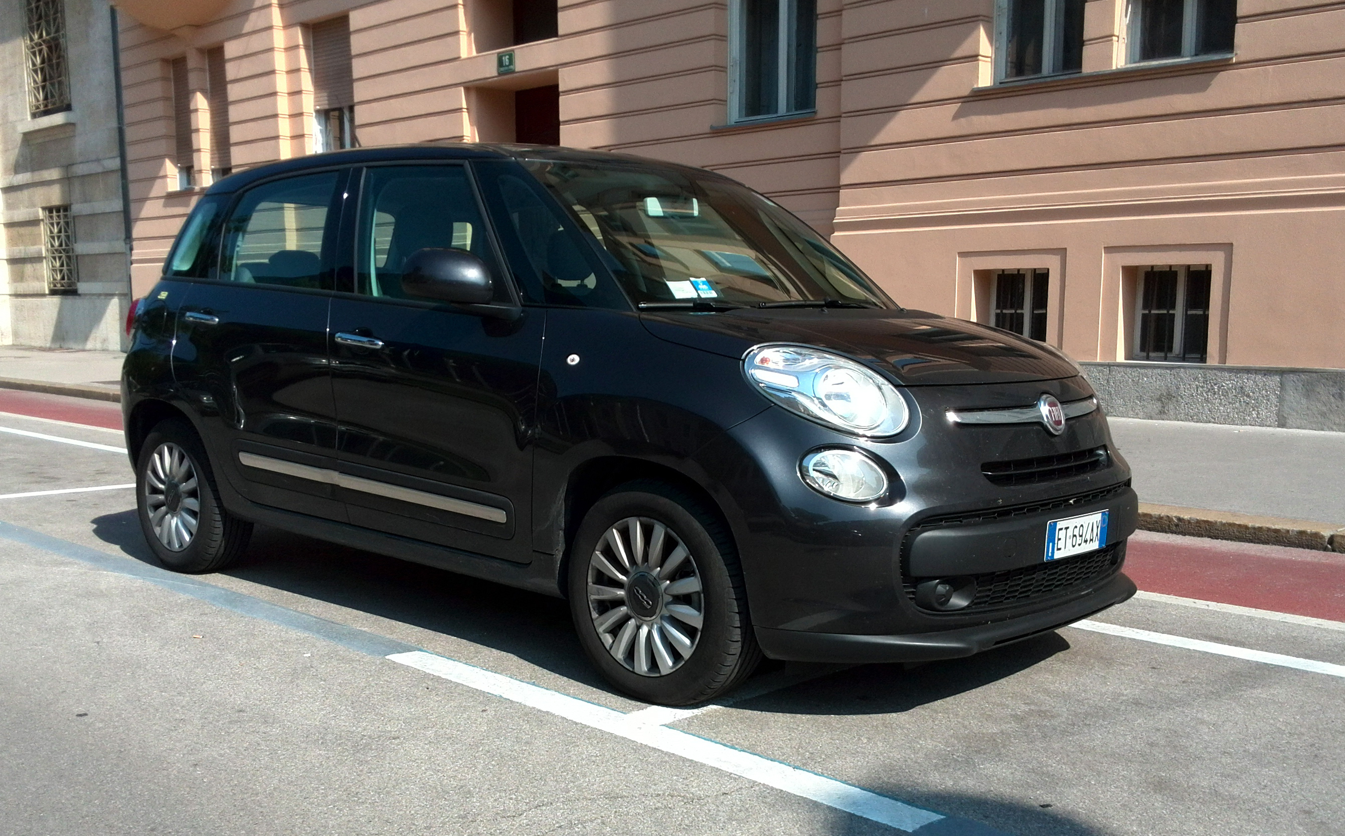 Fiat 500L